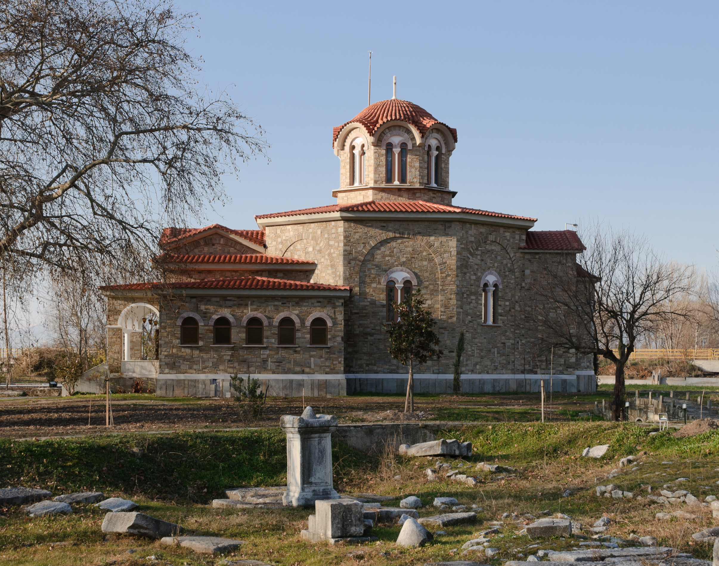 St. Lydia church in the village of Lydia, Kavala municipality, Greece.